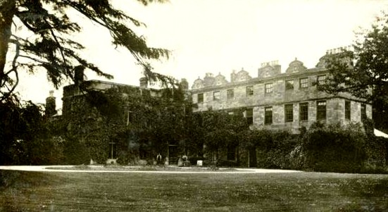 Netherseal Hall, Derbyshire once Tudor. Home of minor bit of Gresley family. Demolished in 1933